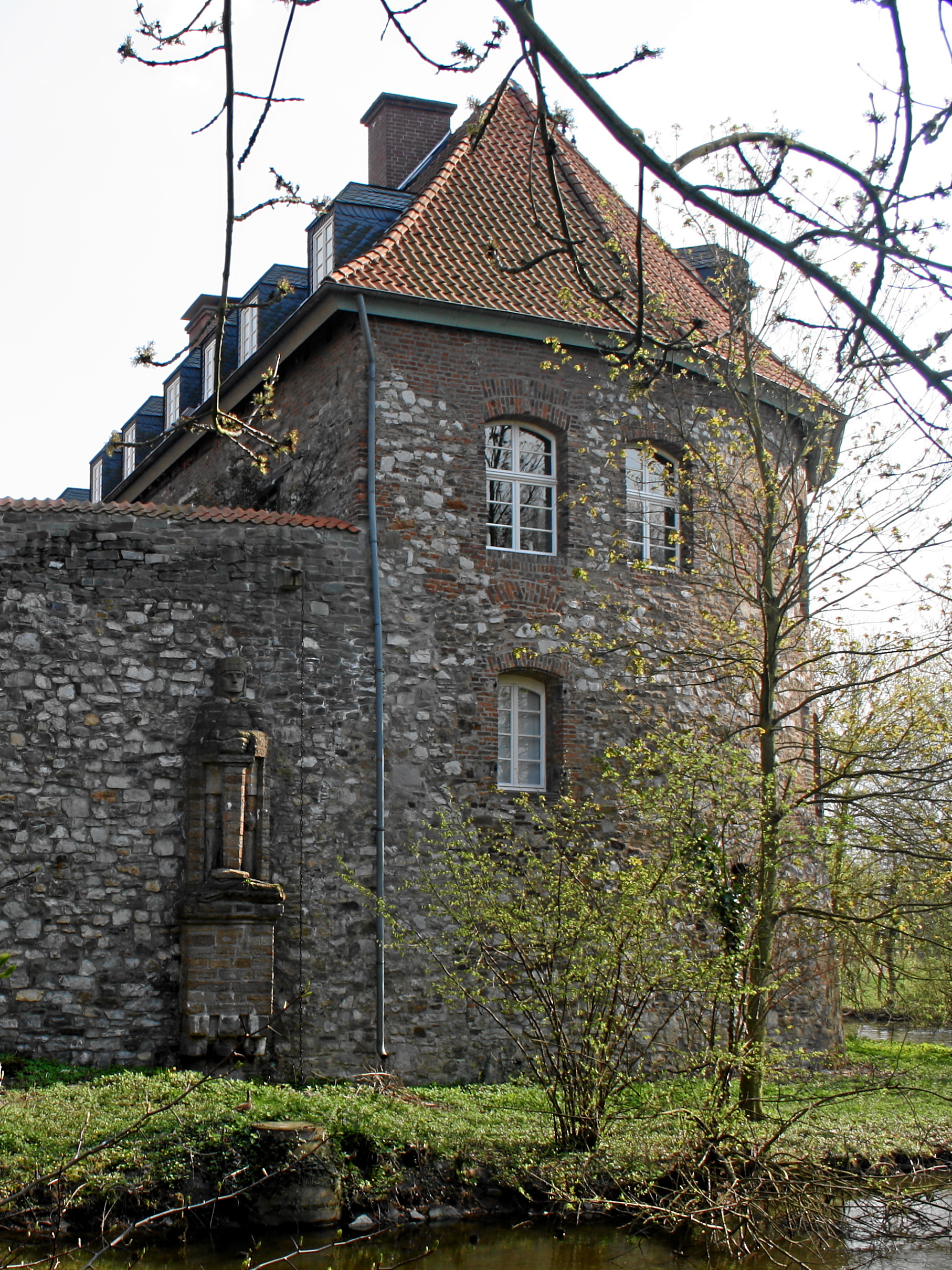 Düsseldorf, Germany. Castle Angermund, view from North.